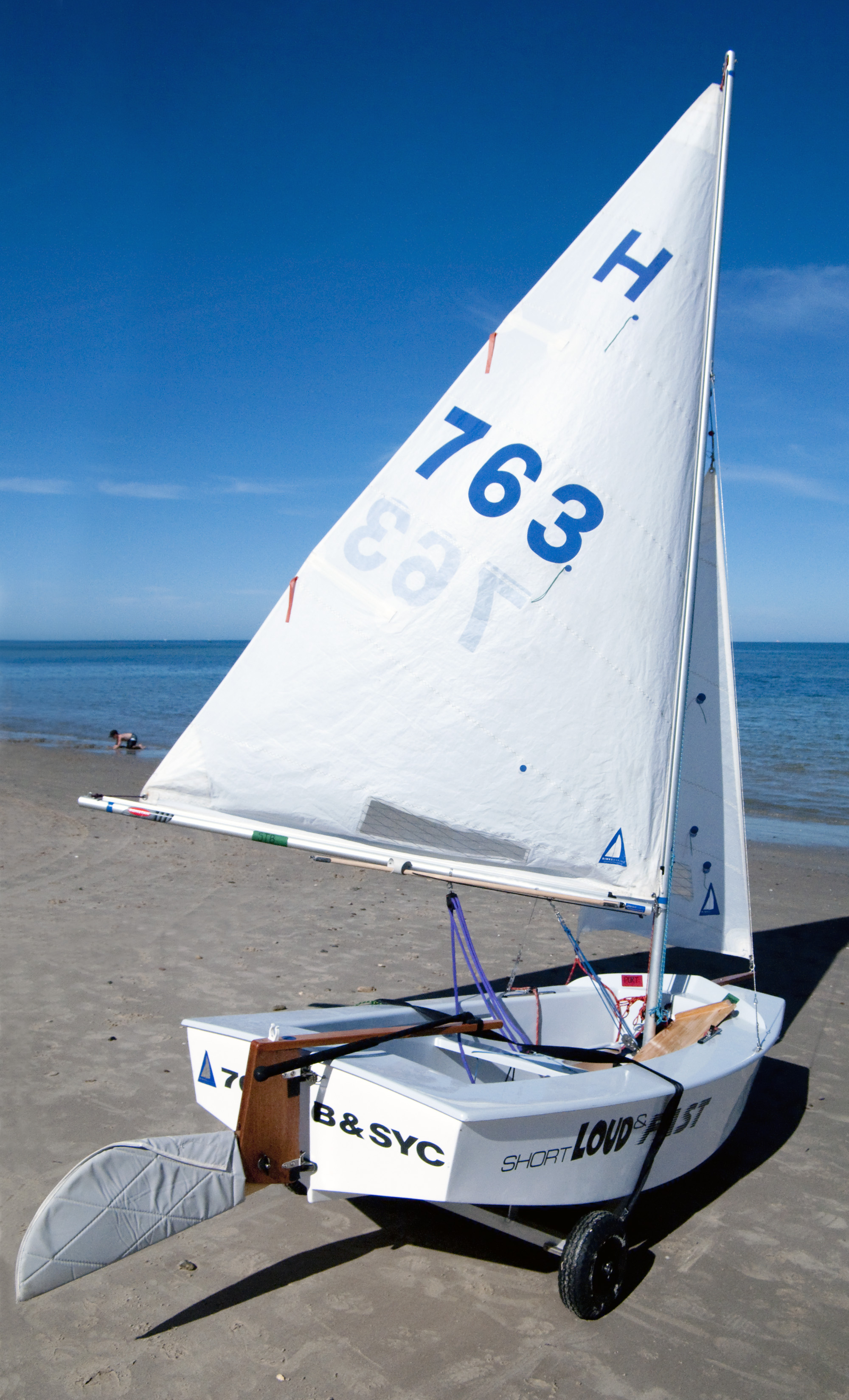 A Holdfast Trainer fully rigged at Brighton, South Australia.